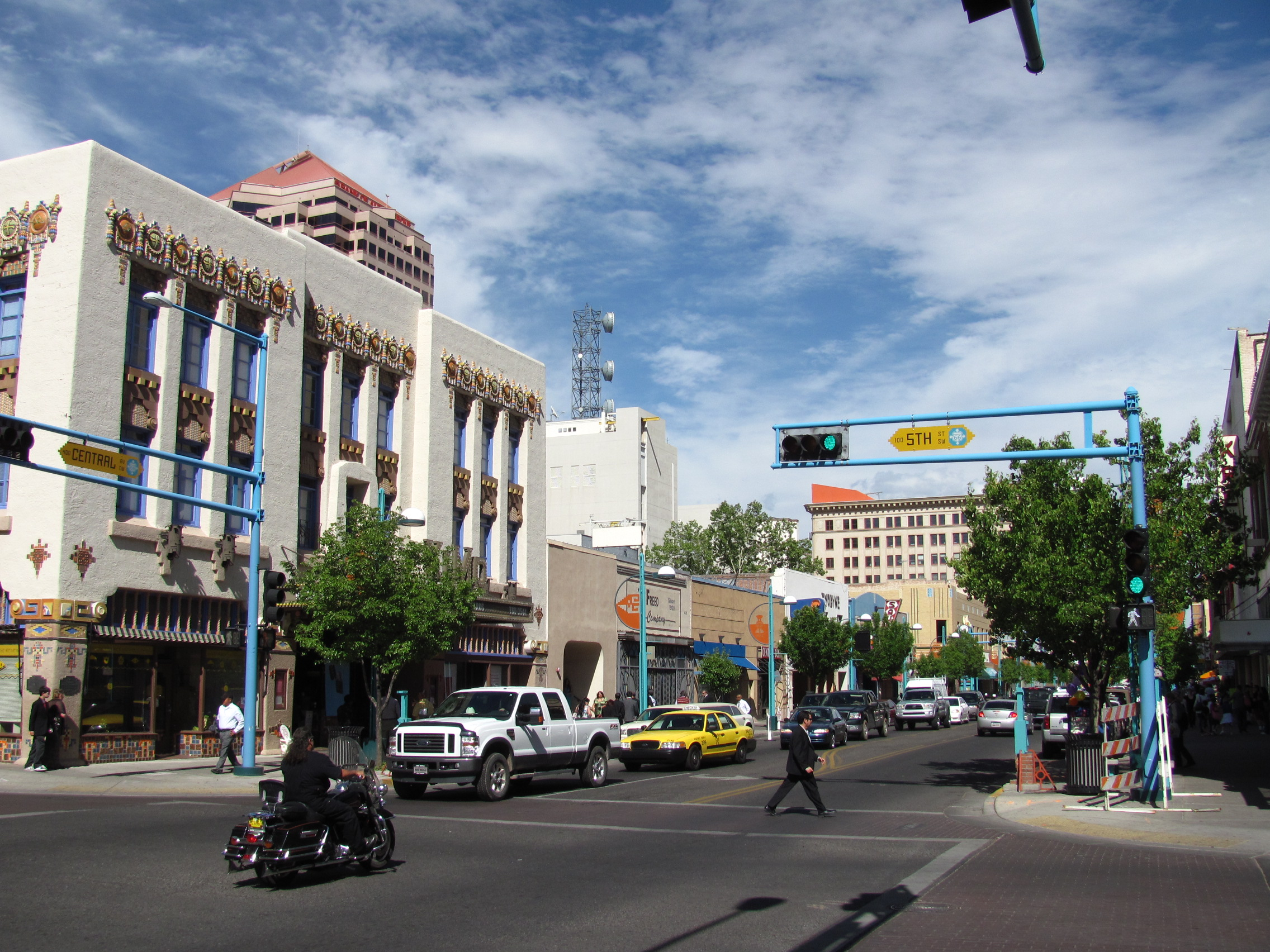 Central Ave and 5th St, Albuquerque New Mexico - on historic Route 66